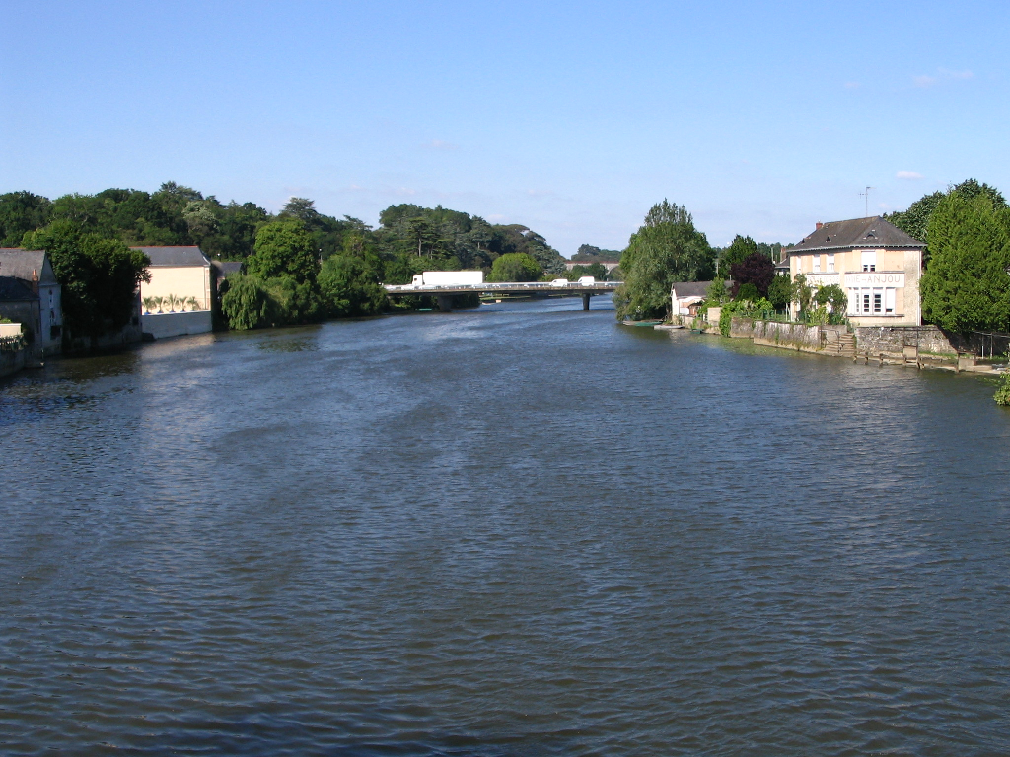 The Joël Le Theule bridge, in Sablé-sur-Sarthe, Sarthe, France.